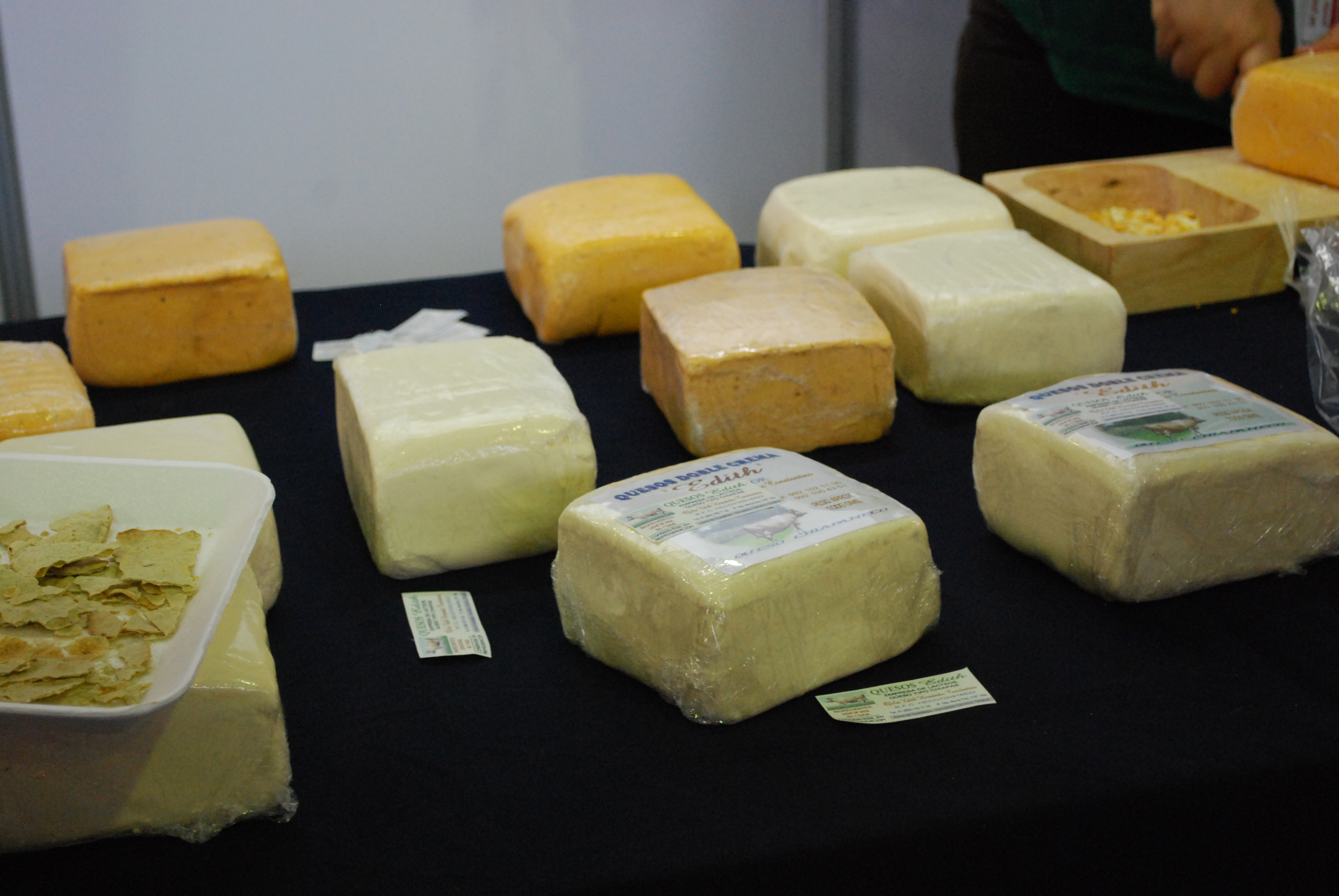 Stand selling doble crema cheese from Chiapas at the 2010 FONART exhibition in Mexico City